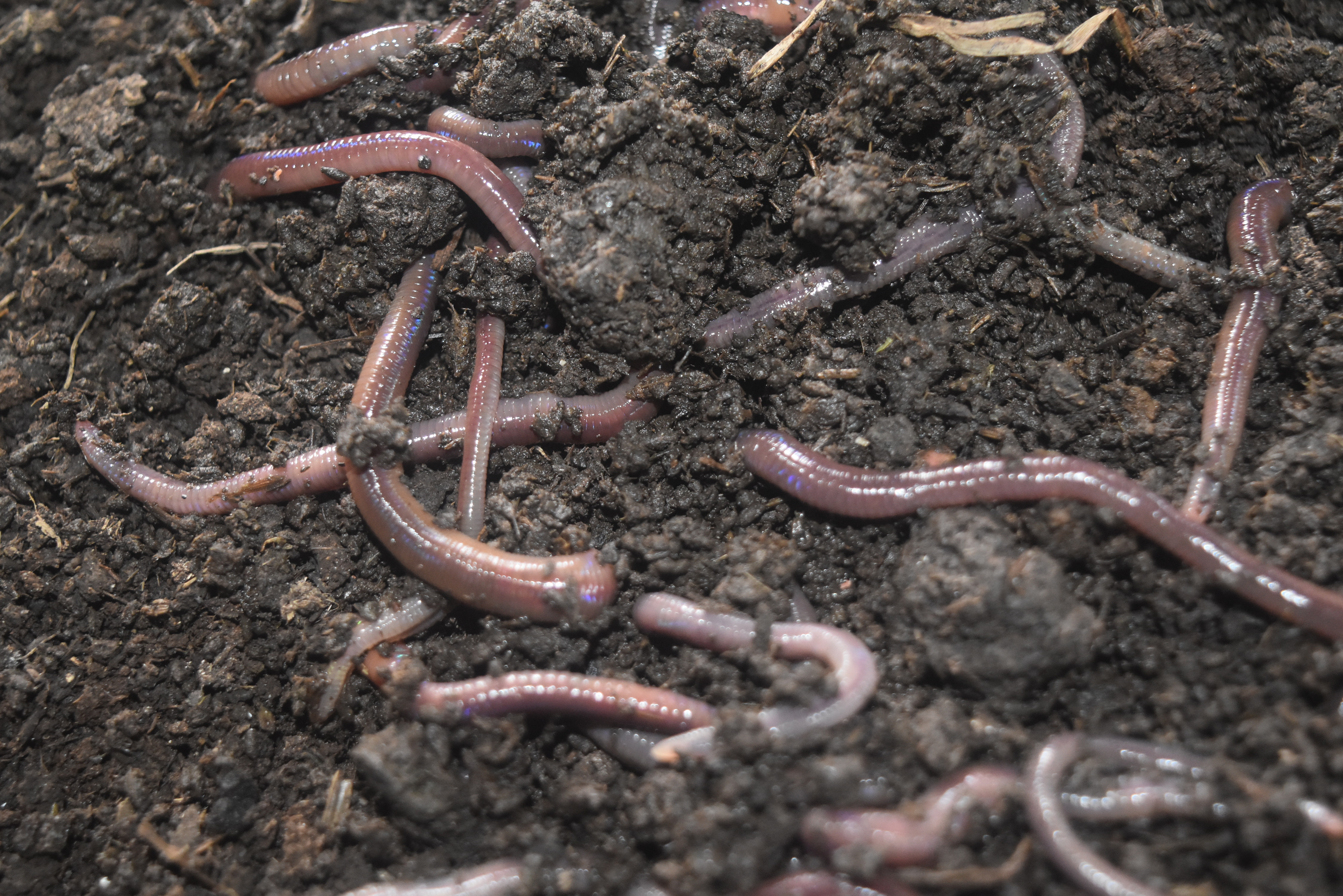 African Night Crawler is being cultured in the CBSUA for its produced organic fertilizer.